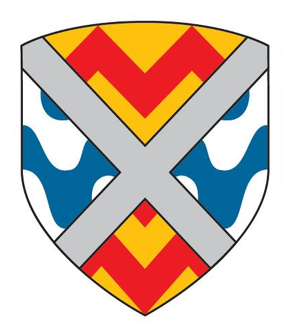 swieqi local council logo